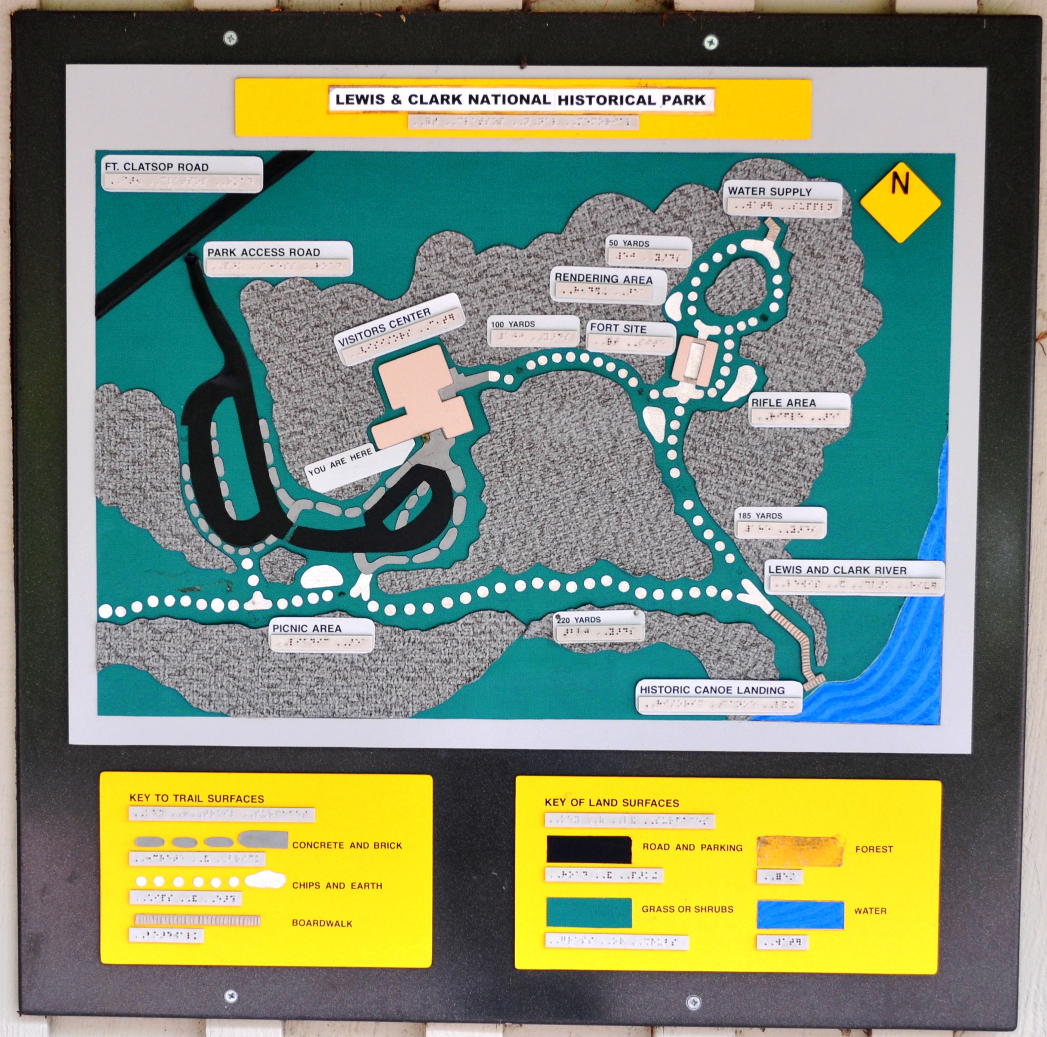 Map of Fort Clatsop — built by the Lewis and Clark Expedition during 1805 - 1806. Part of the Lewis and Clark National Historic Parks, located in Clatsop County, Oregon. Photo of map located outside the visitor center showing.